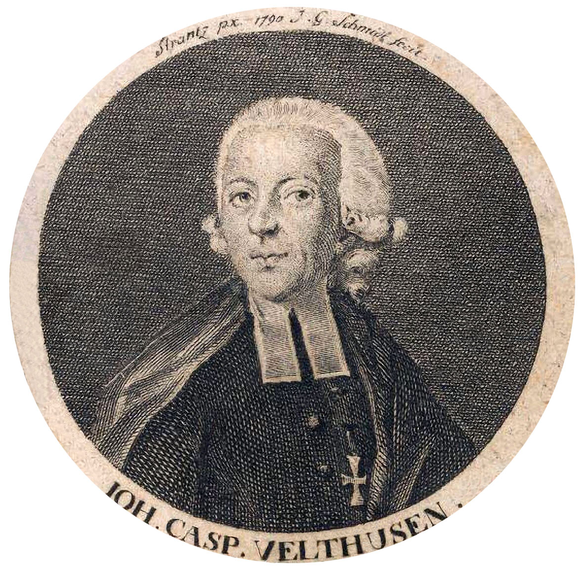 Johann Kaspar Velthusen (1740-1814) Protestant theologian from Germany